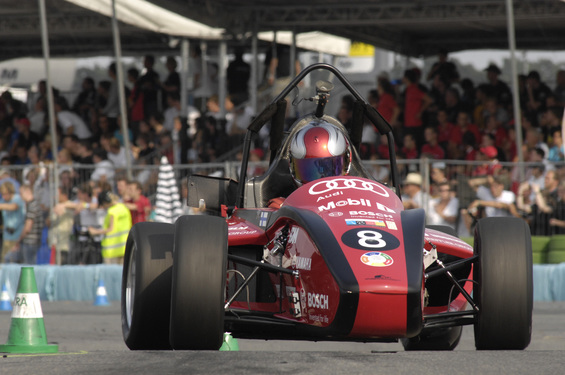 Metropolia Motorsport Helsinki during FSG 2009's endurance event